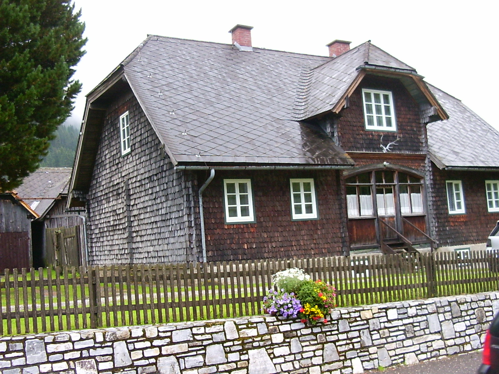 FORSTERHOME AURALI, Günther Schwab a bitter but important life spent, Pusterwald.